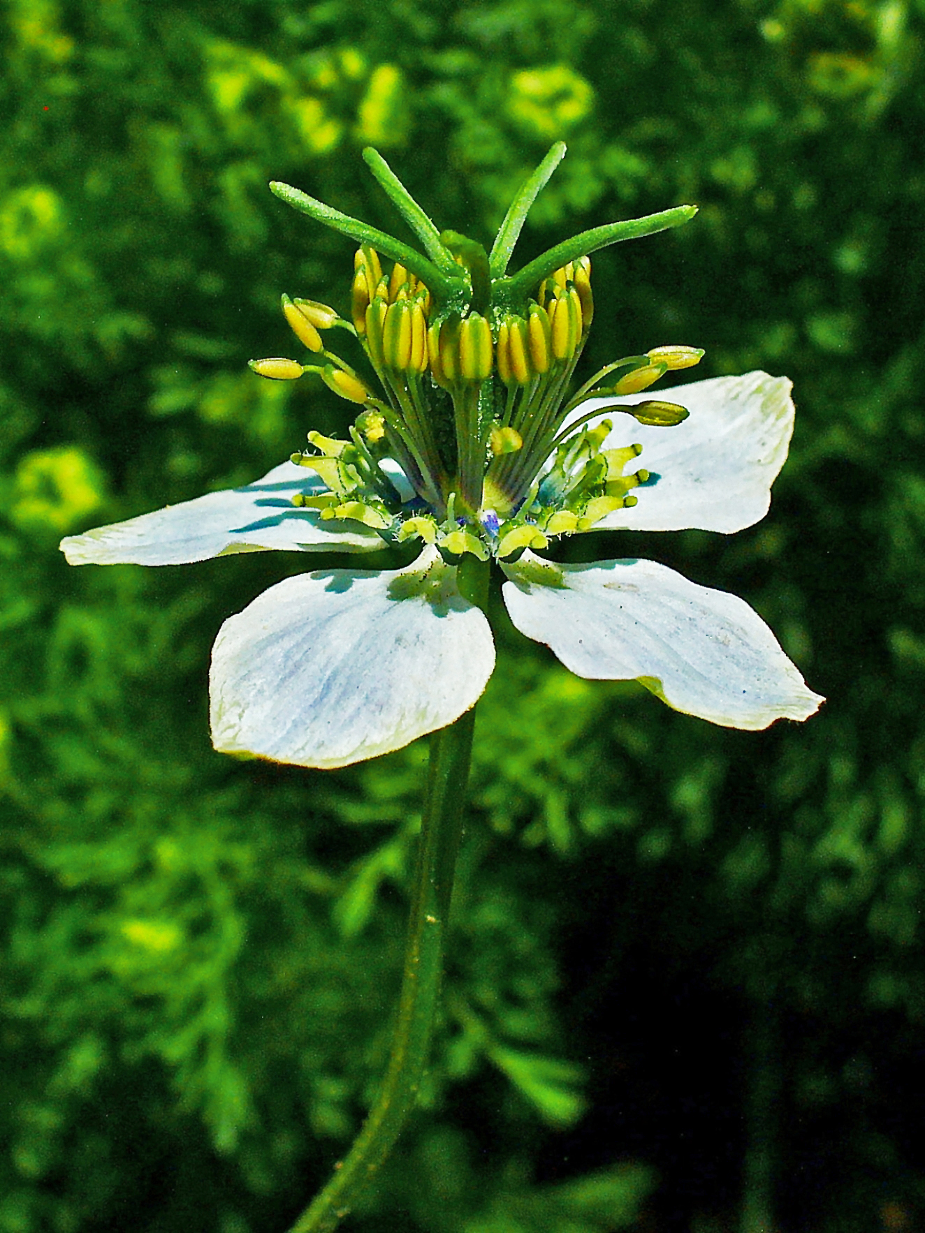 Nigella sativa, Ranunculaceae, Small Fennel, Black Cumin, flower.